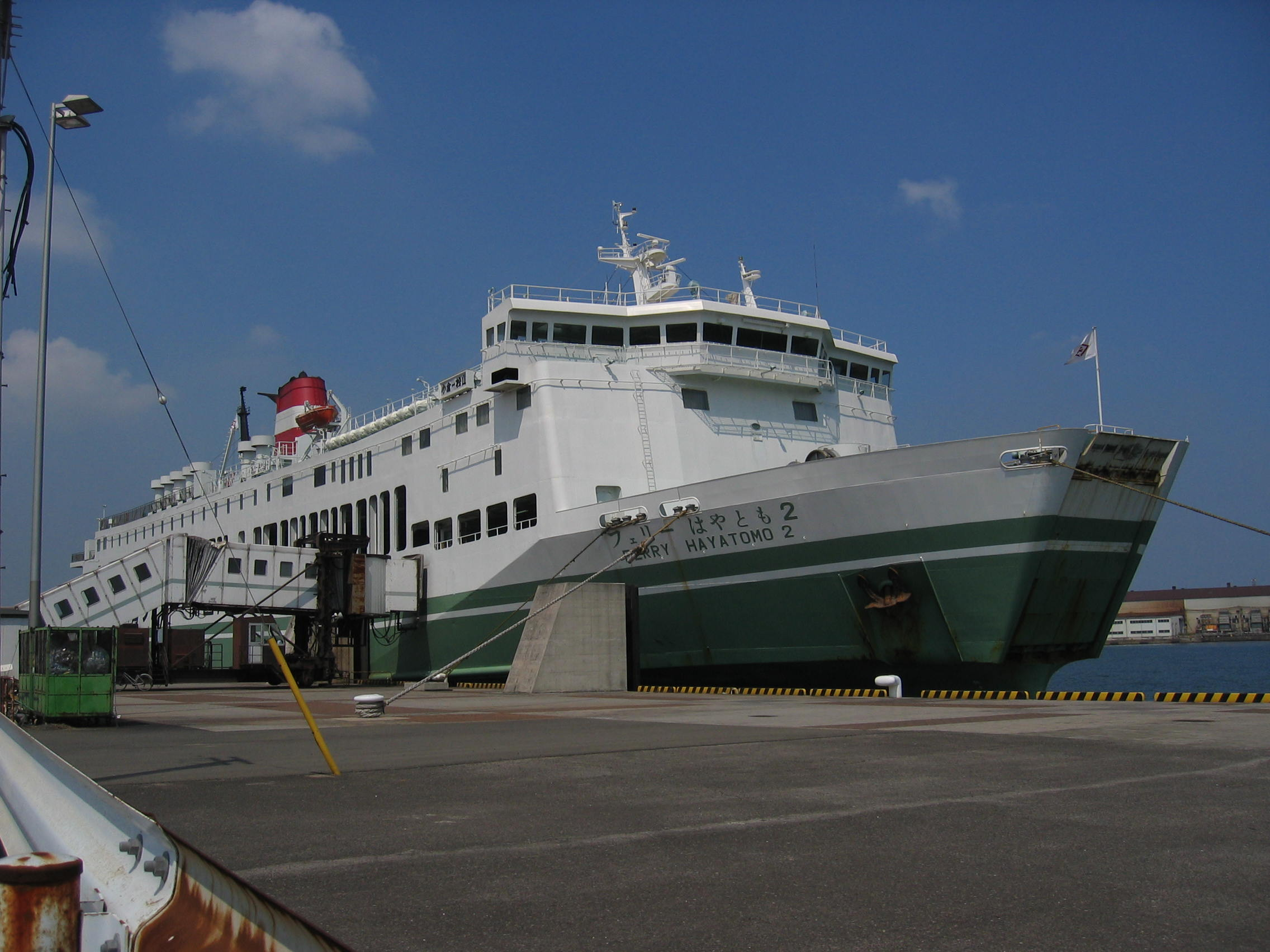 Hayatomo-2. One of two ferries that run between Kokura and Matsuyama. (Kokura port, Aug. 2010)